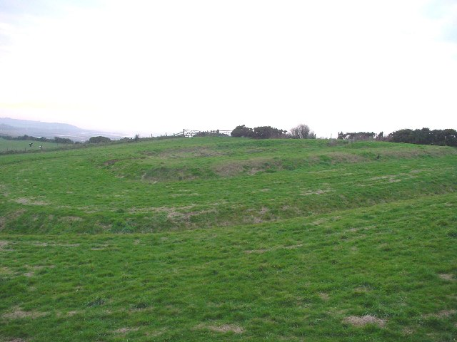 Roman Milefortlet 21. Excavated and partially reconstructed By Cumbria County Council's Planning Department.